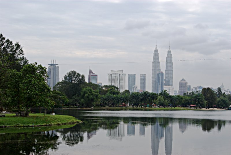 Kuala Lumpur, Malaysia, view from Lake Titiwangsa to Kl downtown